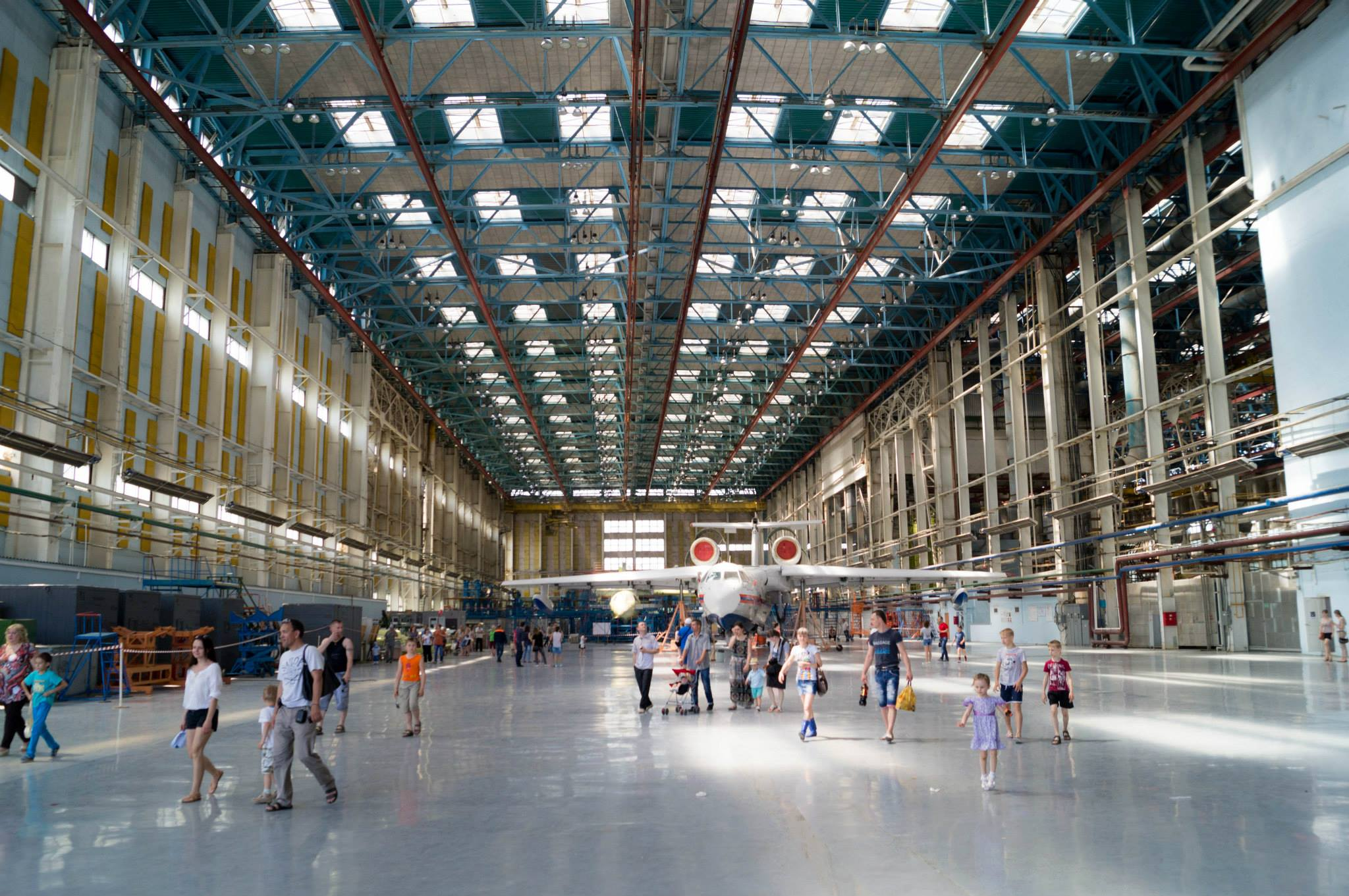 Beriev aircraft factory Taganrog